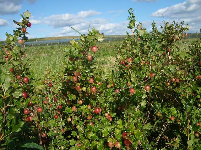 Pick your own gooseberries. Looking from the edge of the gooseberry patch across an area planted with new bushes